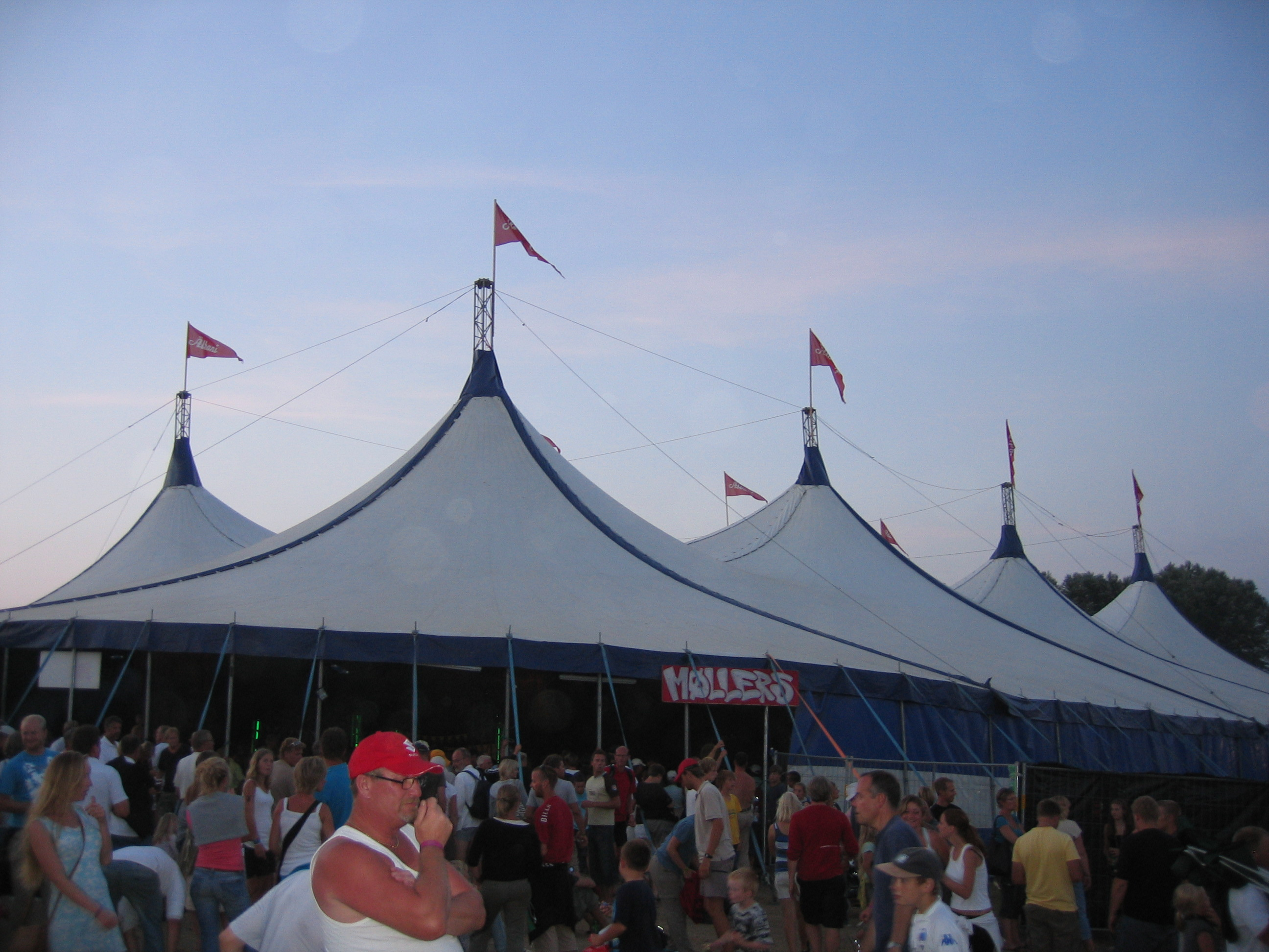 Picture of the "Møllers" tent at Langelandsfestivalen 2006. Picture taken by User:Lhademmor